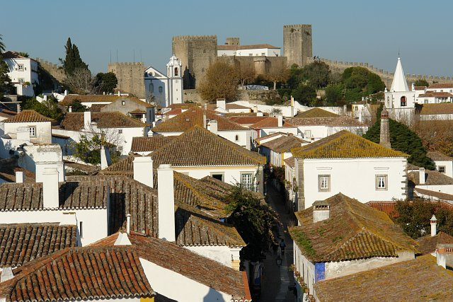 Photography by Osvaldo Gago.